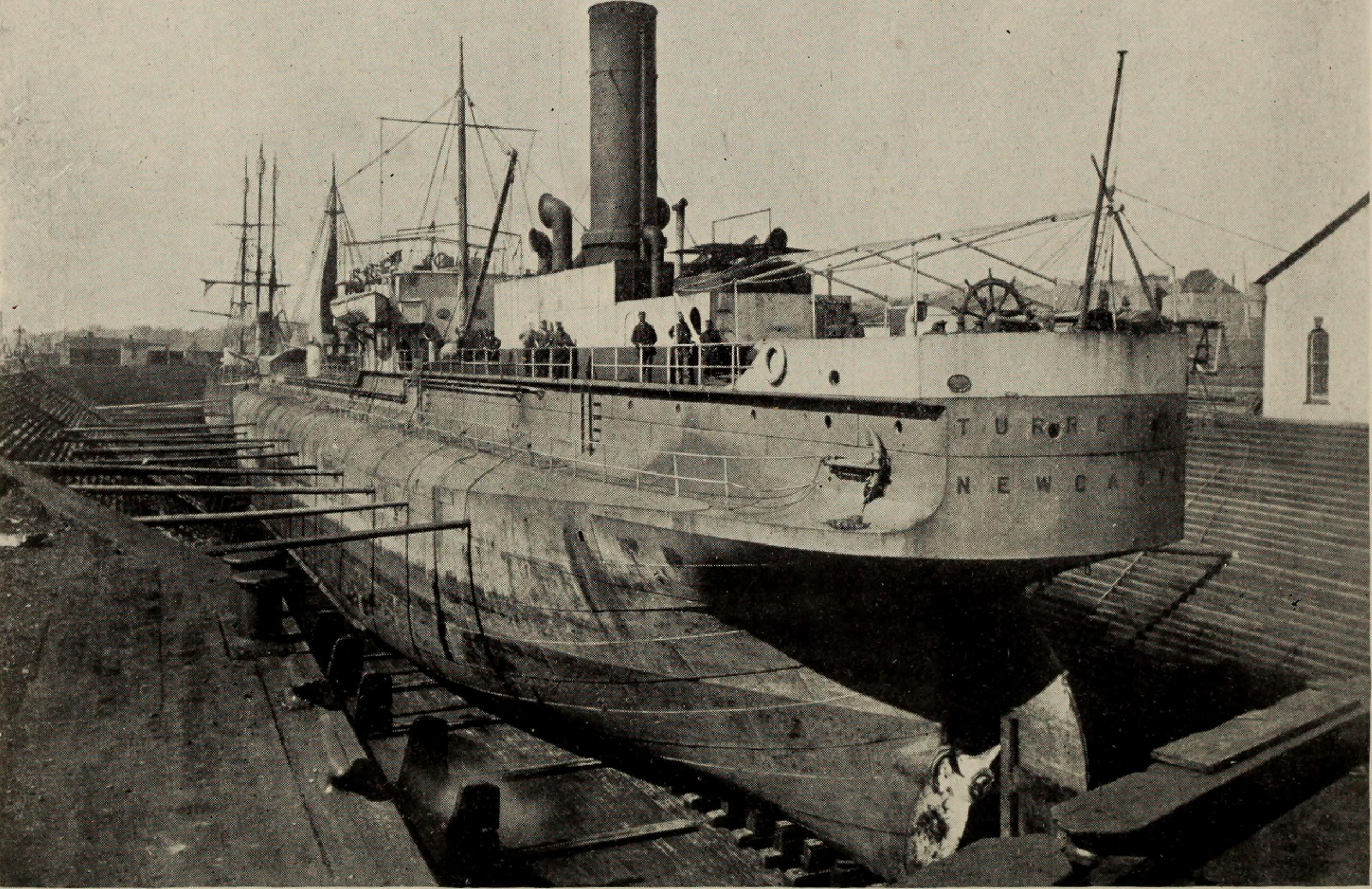 Title: Newfoundland at the beginning of the 20th century : a treatise of history and development Year: 1902 (1900s) Authors: Harvey, M. (Moses), 1820-1901 Subjects: George V, King of Great Britain, 1865-1936 Publisher: New York : The South Publishing Co. Text Appearing Before Image: [Turret Age (1893) of Newcastle-upon-Tyne in the Dry Dock St. Johns Newfoundland 1899] Text Appearing After Image: NEWFOUNDLAND. 105 The Government set to work at once to carry out the popular will with respect to the railway contract of 1898.Negotiations were opened with Mr. Reid, which resulted in the whole railway system of the colony, the telegraph lines and 3,500,000 acres of land, acquired by Mr. Reid under the railway contract of 1898, reverting to the Government upon the payment to him of $2,023,700. This was virtually the repayment to Mr. Reid of the $1,000,000 which he had paid for the reversionary interest of the railway, together with the interest upon the same to date, and the payment of the sum of $850,000 for all the land acquired him under the Railway Act, 1898. Mr. Reid entered into a new contract with the Government to operate the railway free of charge for fifty years, and the Government consented to his transferring this contract,and his remaining interests under the 1898 contract to a limited liability company, to be known as the Reid-Newfoundland Company. That company has been incorp